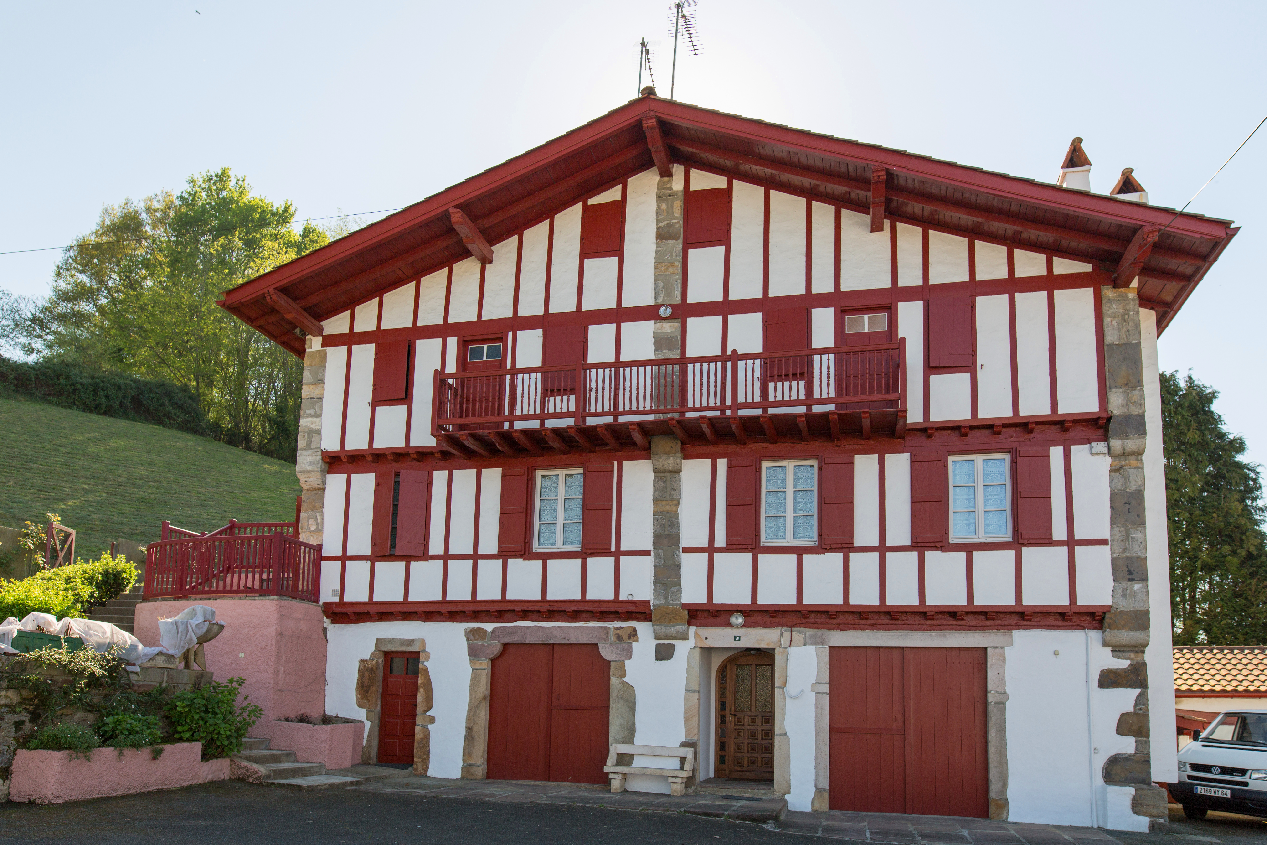 Maison basque